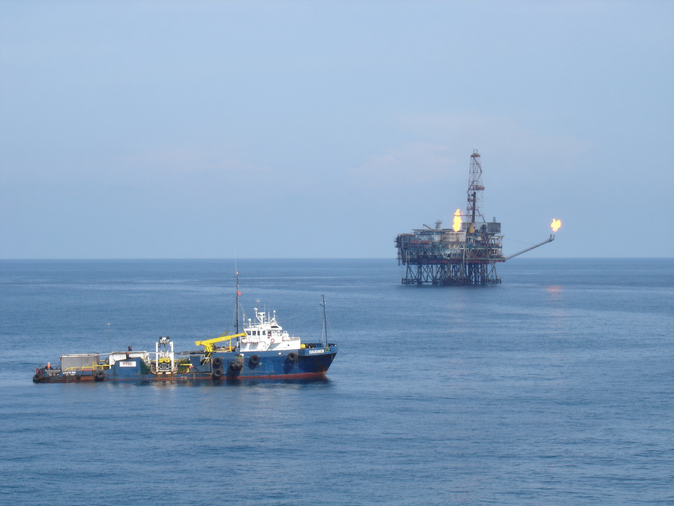 Oil rig platform and stand-by vessel DAUKH 108, in Vũng Tàu Oil Field, Socialist Republic of Vietnam, from oil tanker MT Torben Spirit